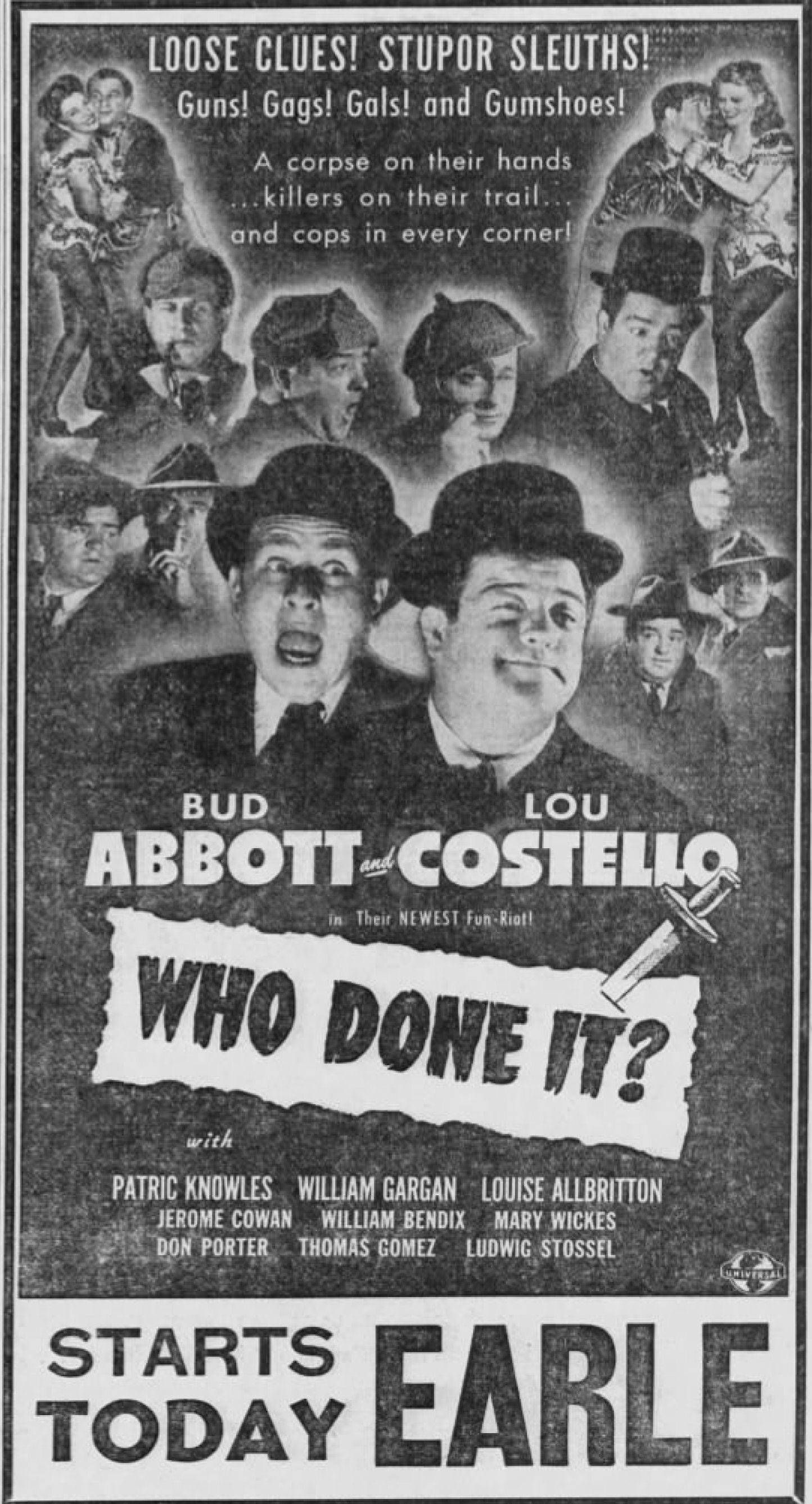 Earle Theater advertisement for the American comedy film Who Done It? (1942) - 6 Nov. 1942 Morning Call, Allentown PA